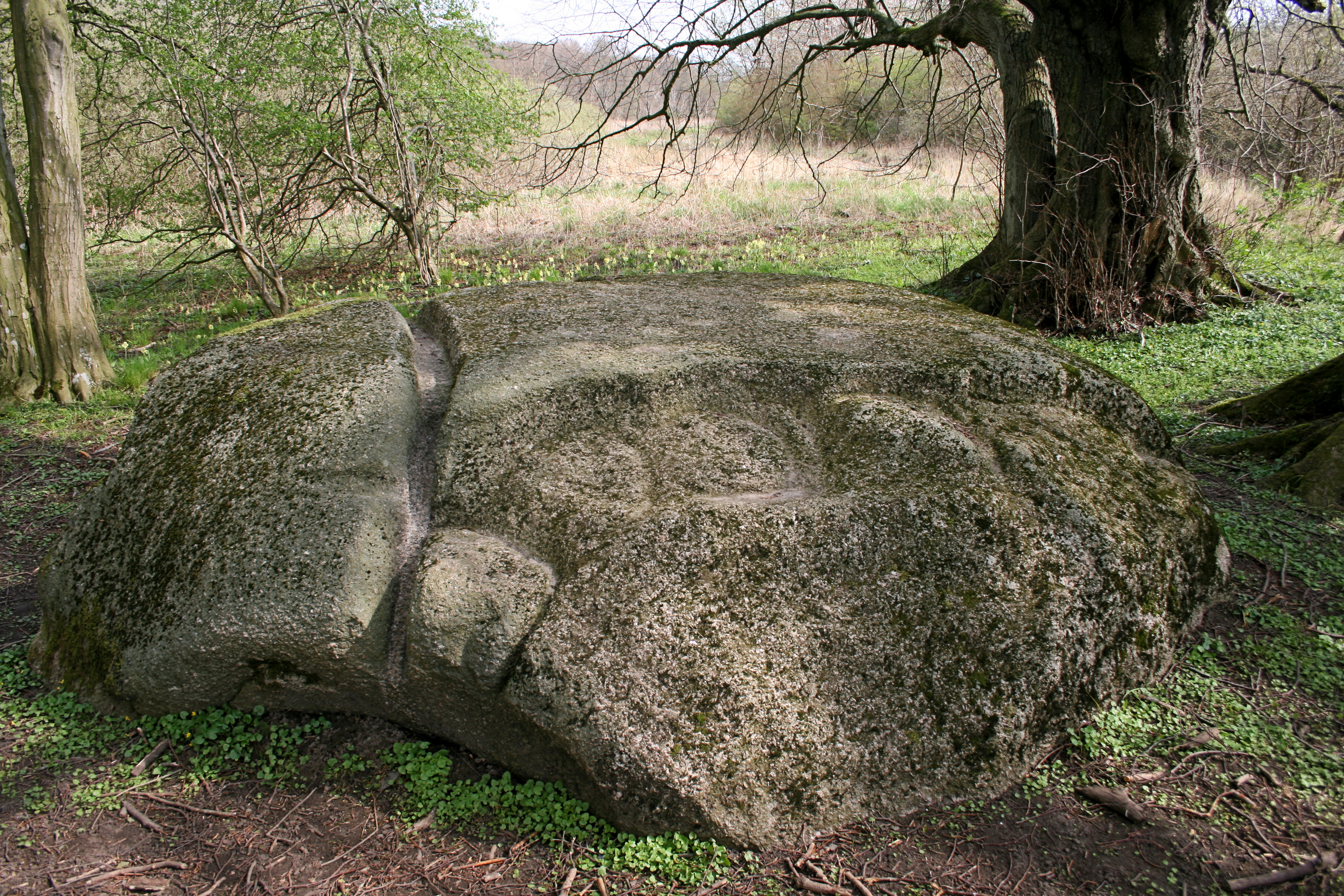 the offering stone near Quoltitz on the island Rügen